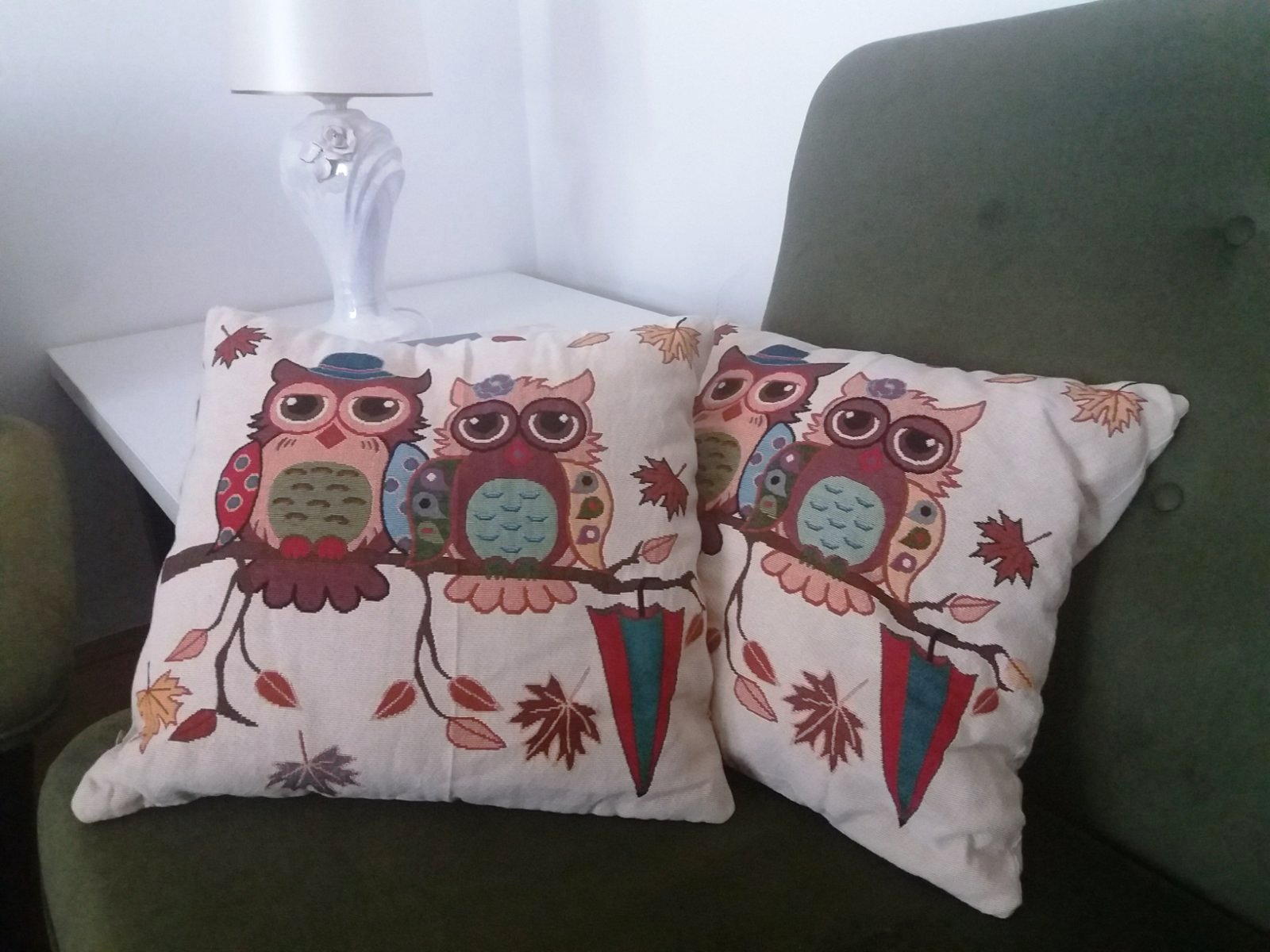 Decorative pillowcases on pillows